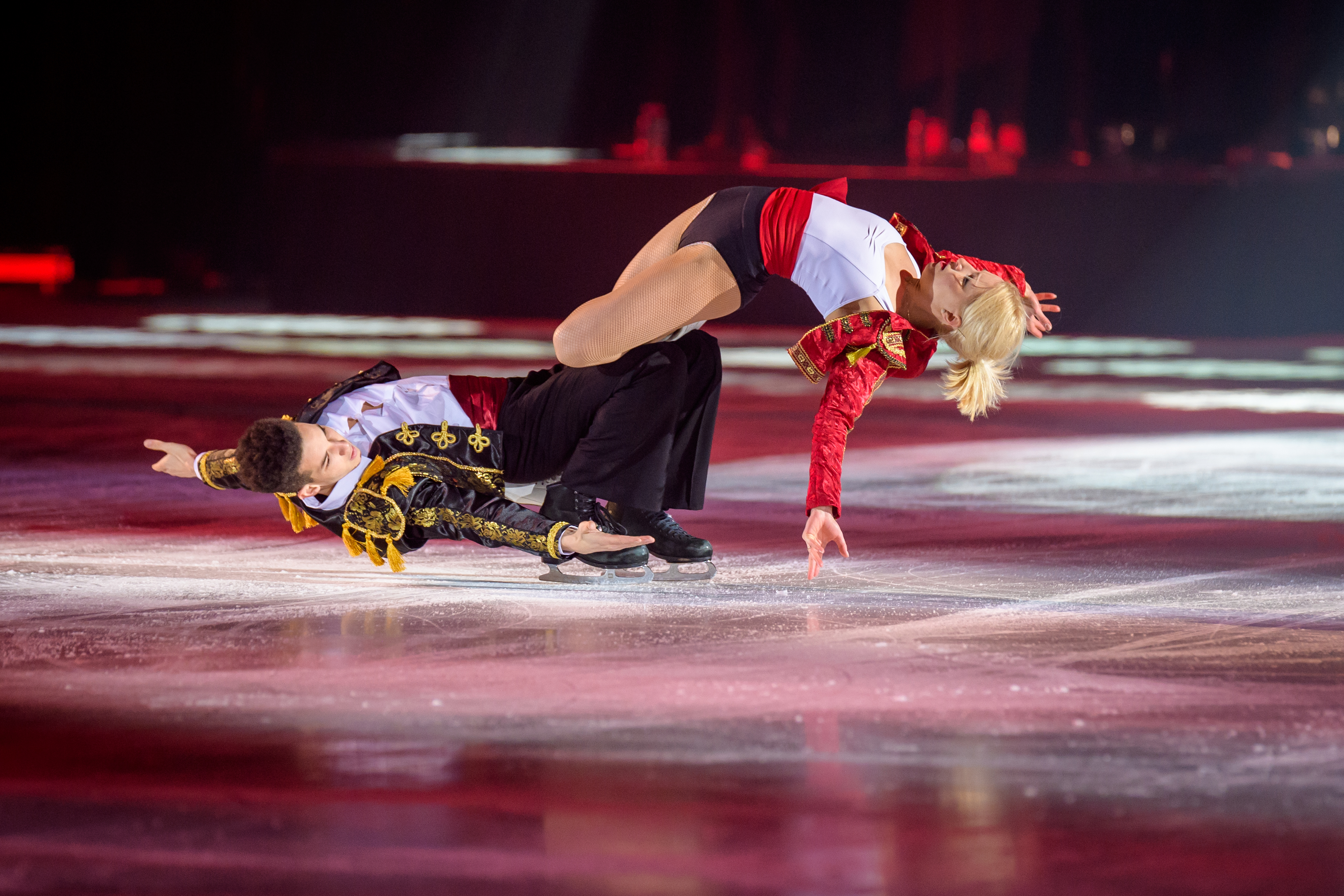 ice skating Lift by Justyna & Jérémie during a performance for a show tour in Switzerland called ART ON ICE 2018. Emeli Sandé with Hurts, Art on Ice 2018 - Lausanne 06.03.2018